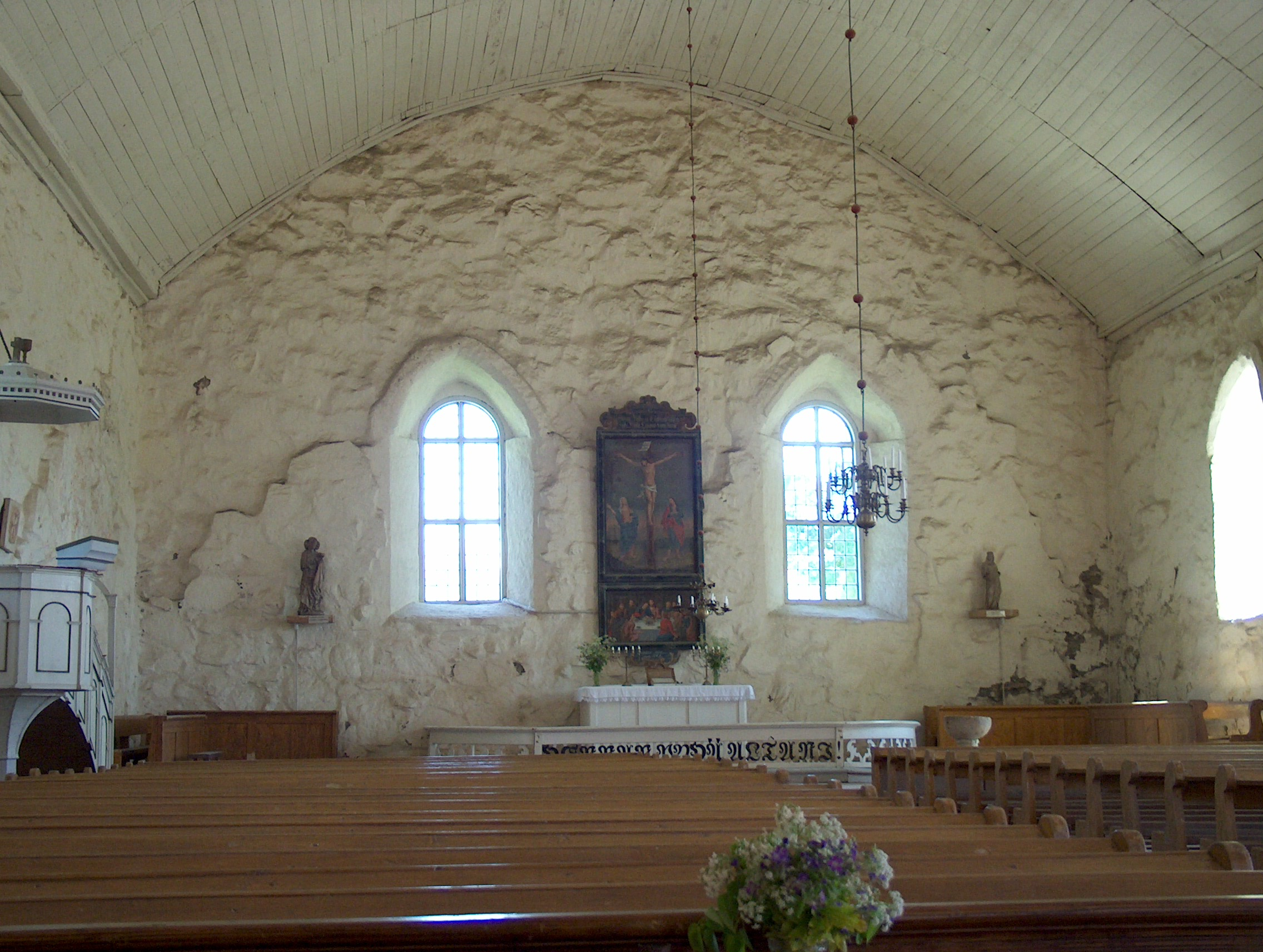 Sastamala Medieval Church of Saint Mary in summer 2004 – Interior